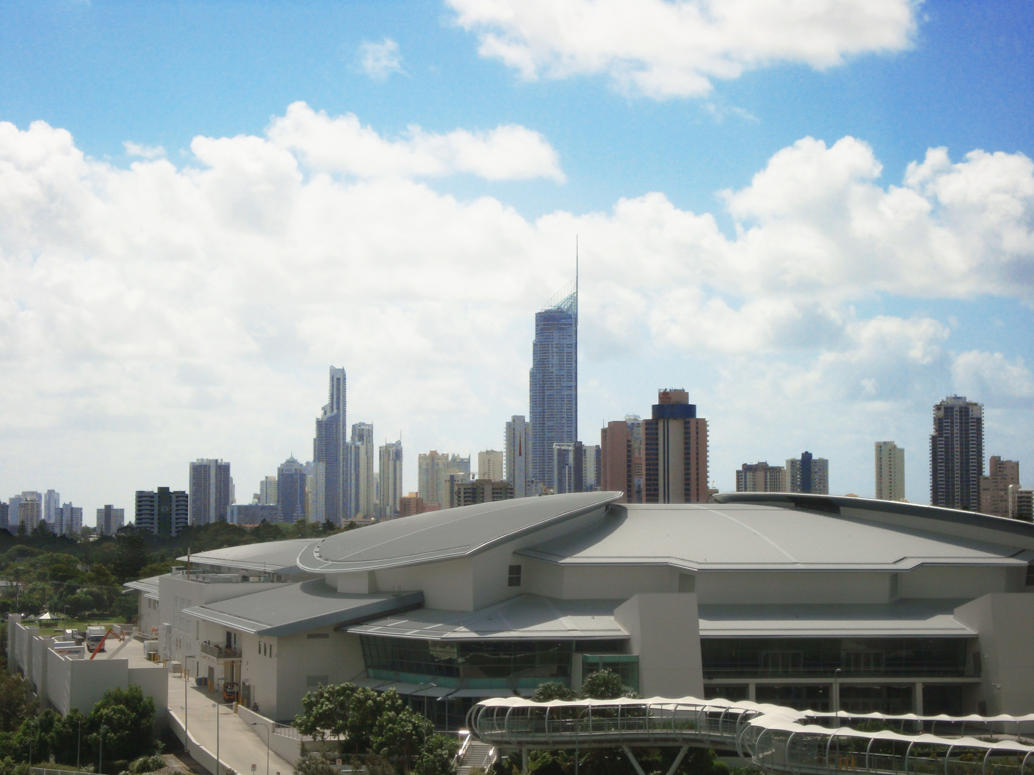 View north over the Gold Coast Convention and Exhibition Centre to Surfers Paradise, Gold Coast, Queensland